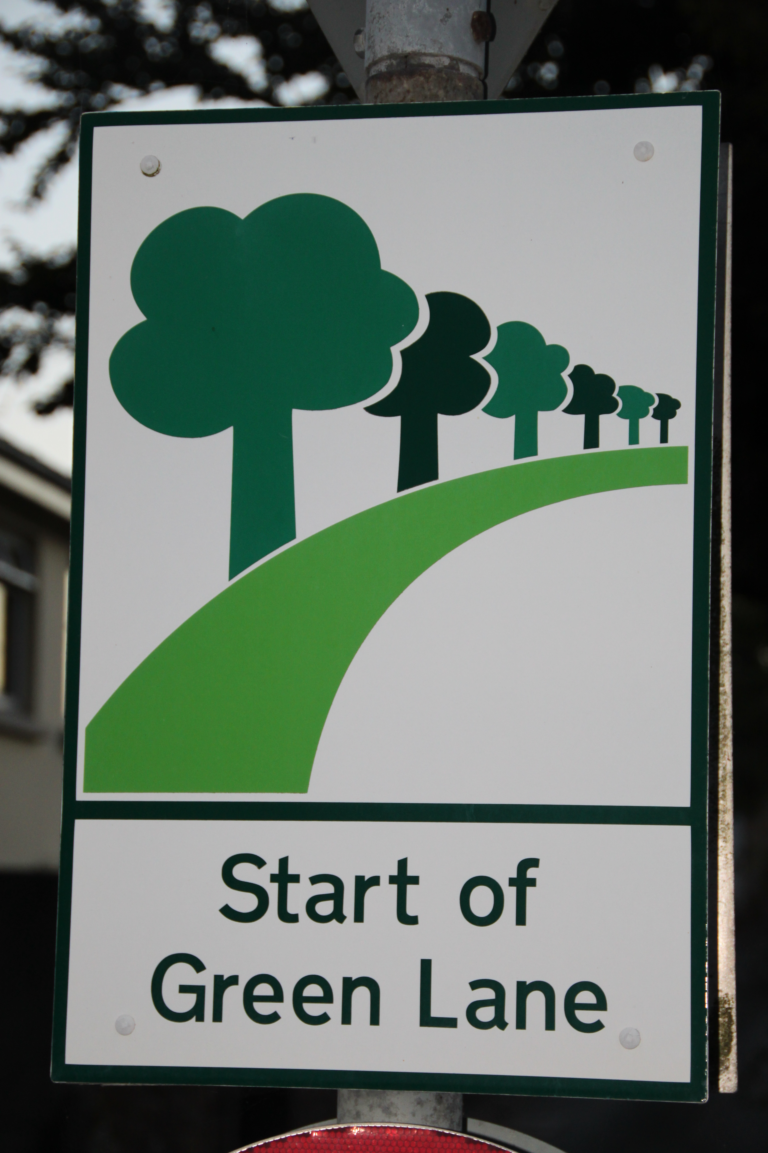 Jersey traffic-sign Green Lane (Start of...)